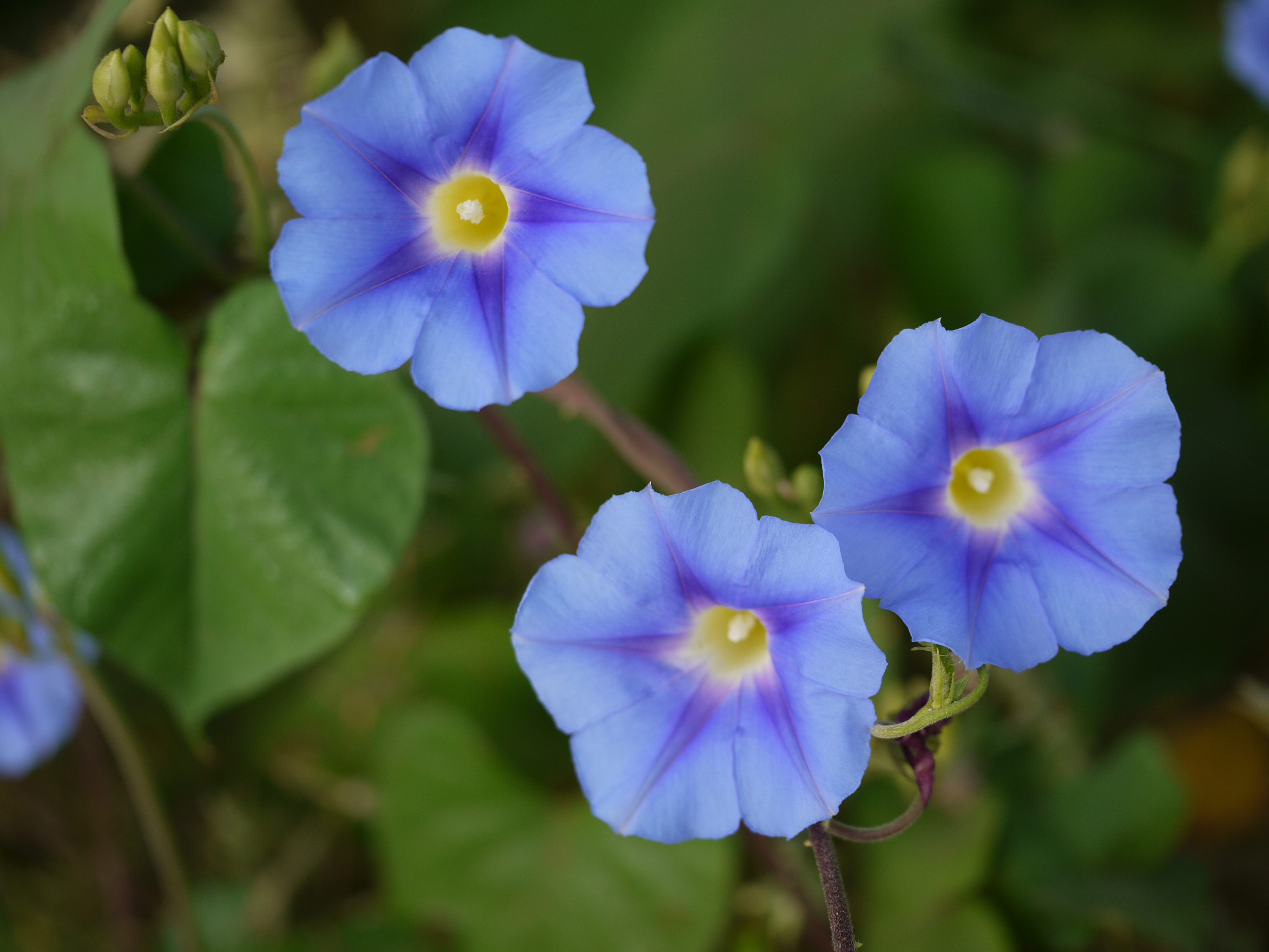 Convolvulaceae (convolvulus, bindweed, or morning glory family) » Ipomoea parasitica (Kunth) G. Don ip-oh-MEE-uh or ip-oh-MAY-uh -- worm-like; referring to coiled flower bud par-uh-SIT-ee-kuh -- parasitic; parasite-like commonly known as: yellow-throated ipomoea Native to: tropical Americas; naturalized elsewhere References: Dave's Garden • NPGS / GRIN